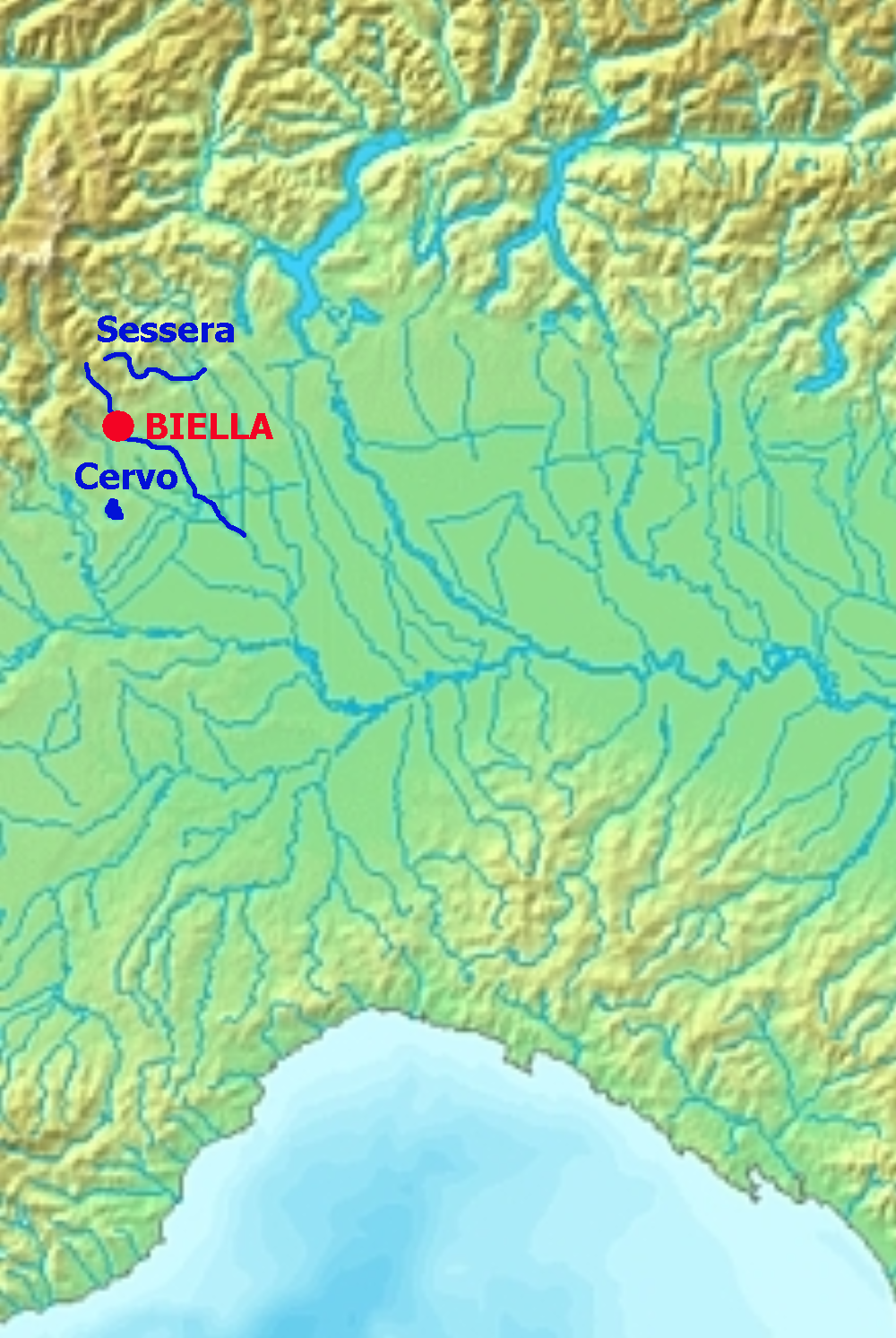 Location of the main rivers of Biella province